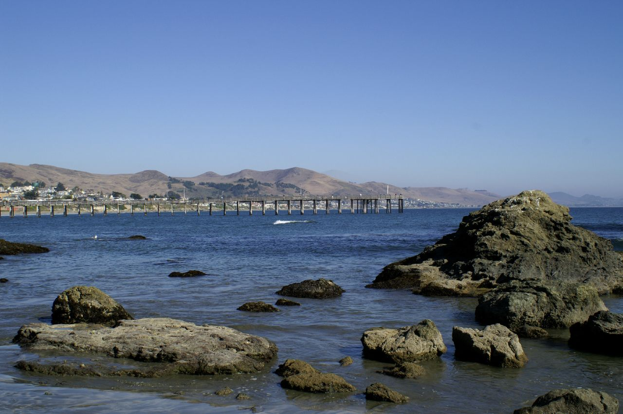 The pier of Cayucos, California, USA